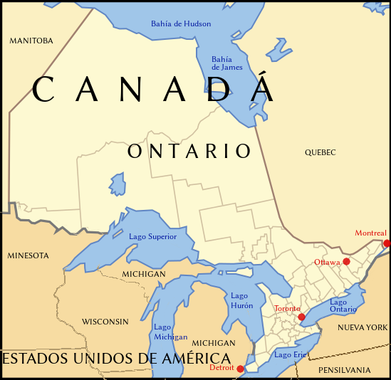 Map of Ontario in Spanish